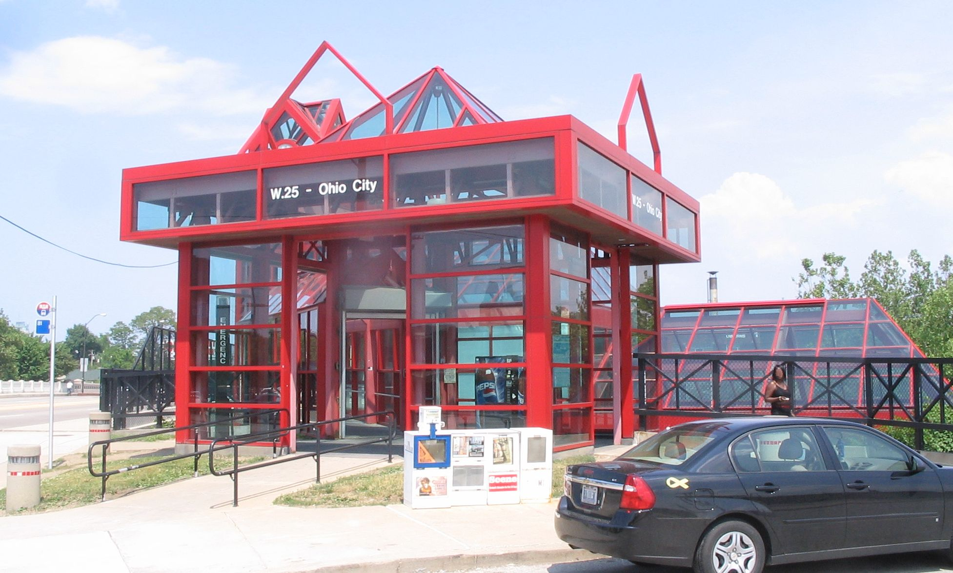 West 25th Station on the Red Line of Cleveland RTA Rapid Transit